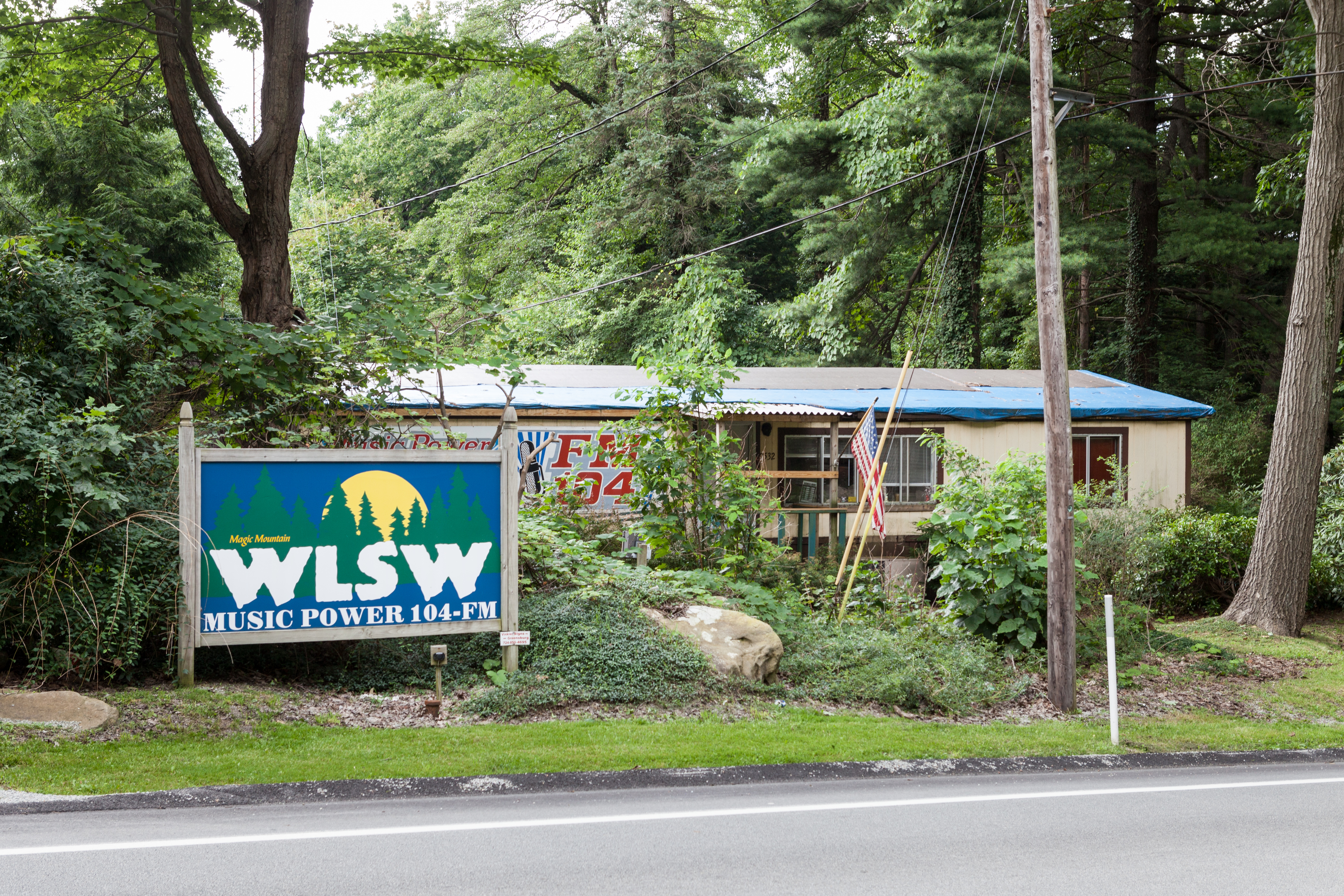 Studio building for WLSW-FM at 2532 Springfield Pike (PA Route 711), located in Springfield Township, Fayette County, Pennsylvania.